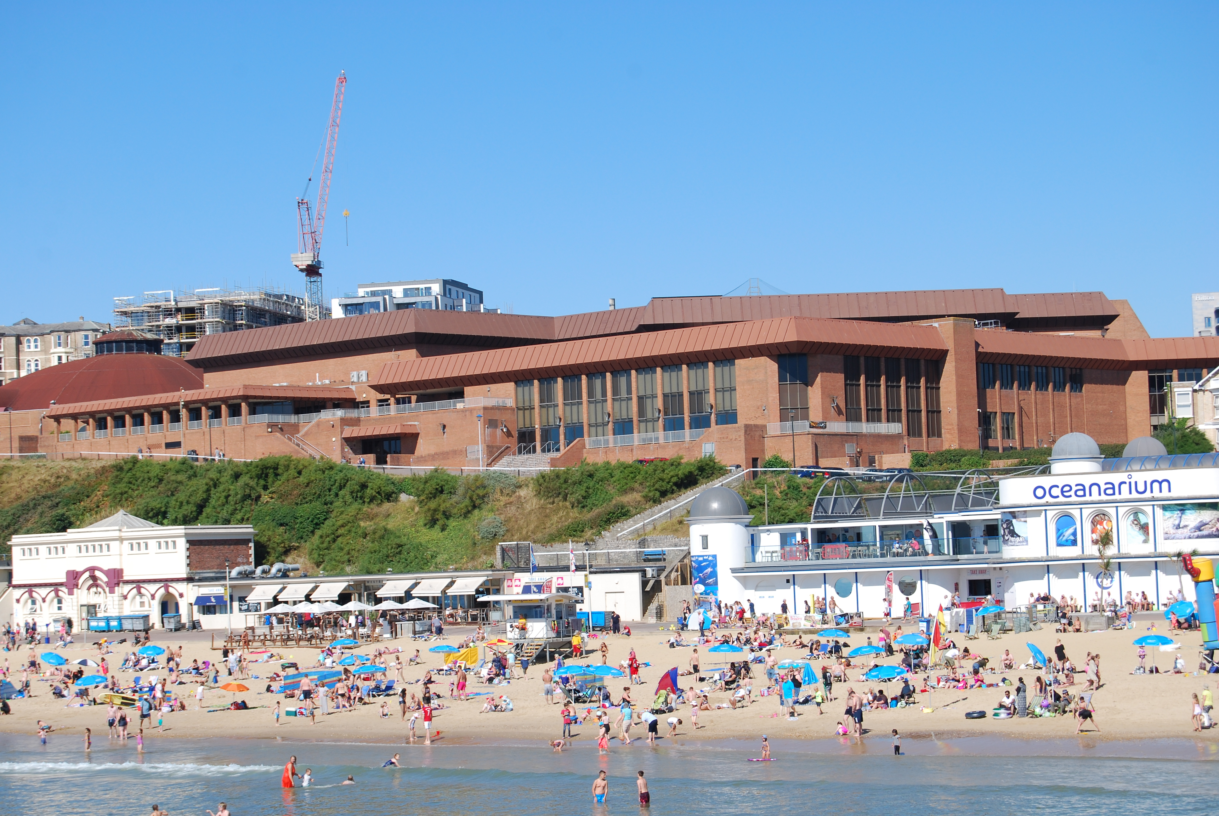 View from the pier (4)